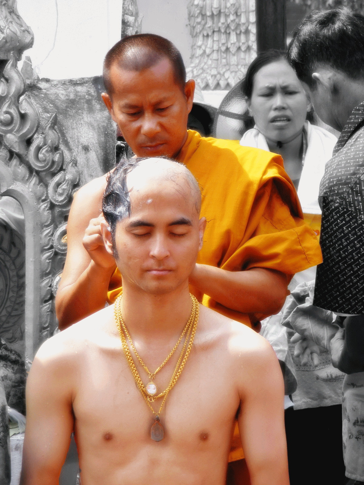 the ceremony shaves off the head for prepares to ordain go into priesthood in Theravada Buddhism in Ban Khung Taphao, Khung Taphao subdistrict, Mueang Uttaradit, Uttaradit Province, Thailand.) on April 13, 2008.